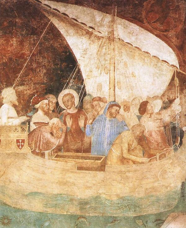 Andrea_di_Bonaiuto._Scenes_from_the_Life_of_St_Rainerus._1376-78_Fresco._Pisa,_Camposanto.